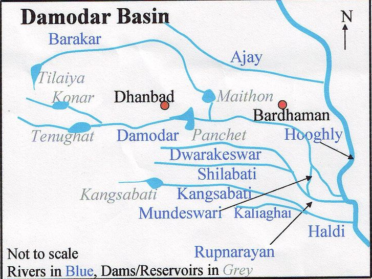 Map of Damodar Bassin